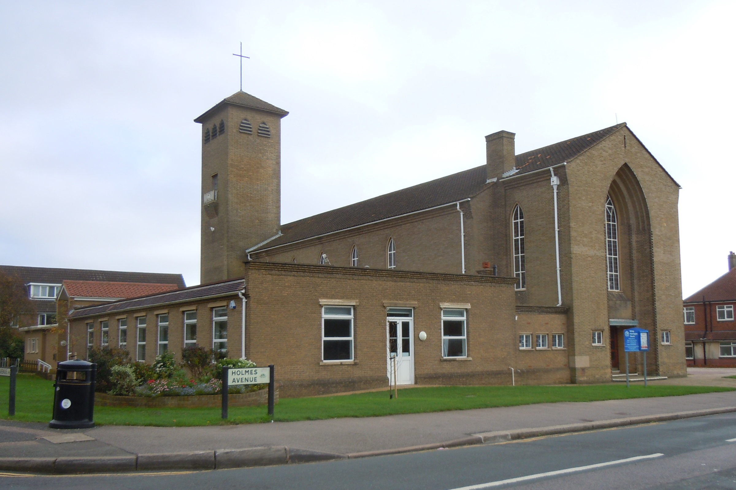 Bishop Hannington Memorial Church, Holmes Avenue, West Blatchington, City of Brighton and Hove, England.